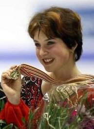 euro 2006